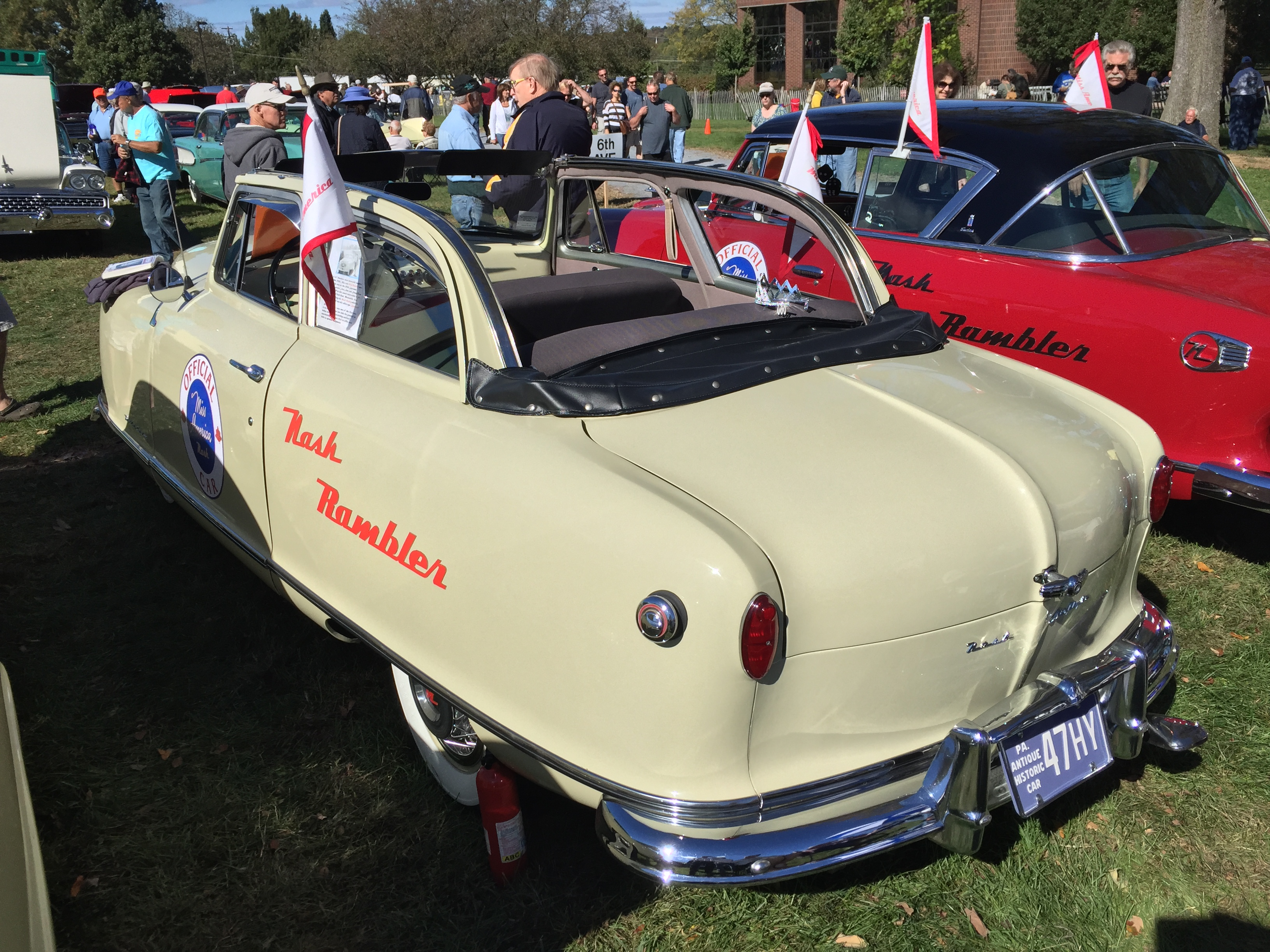 1951 Nash Rambler Custom convertible. A compact-sized, upmarket two-door designated the "Landau" that included as standard equipment: whitewall tires, full wheel covers, electric clock, and even a pushbutton AM radio, all items that were extra cost options on all other cars at that time. The unibody construction design incorporated fixed roof structure above the car's doors and rear-side window frames that served as the side guides or rails for the electrically retractable waterproof canvas roof. Picture taken on the show field of the Antique Automobile Club of America (AACA) 2015 Hershey meet that is held every October in Pennsylvania.